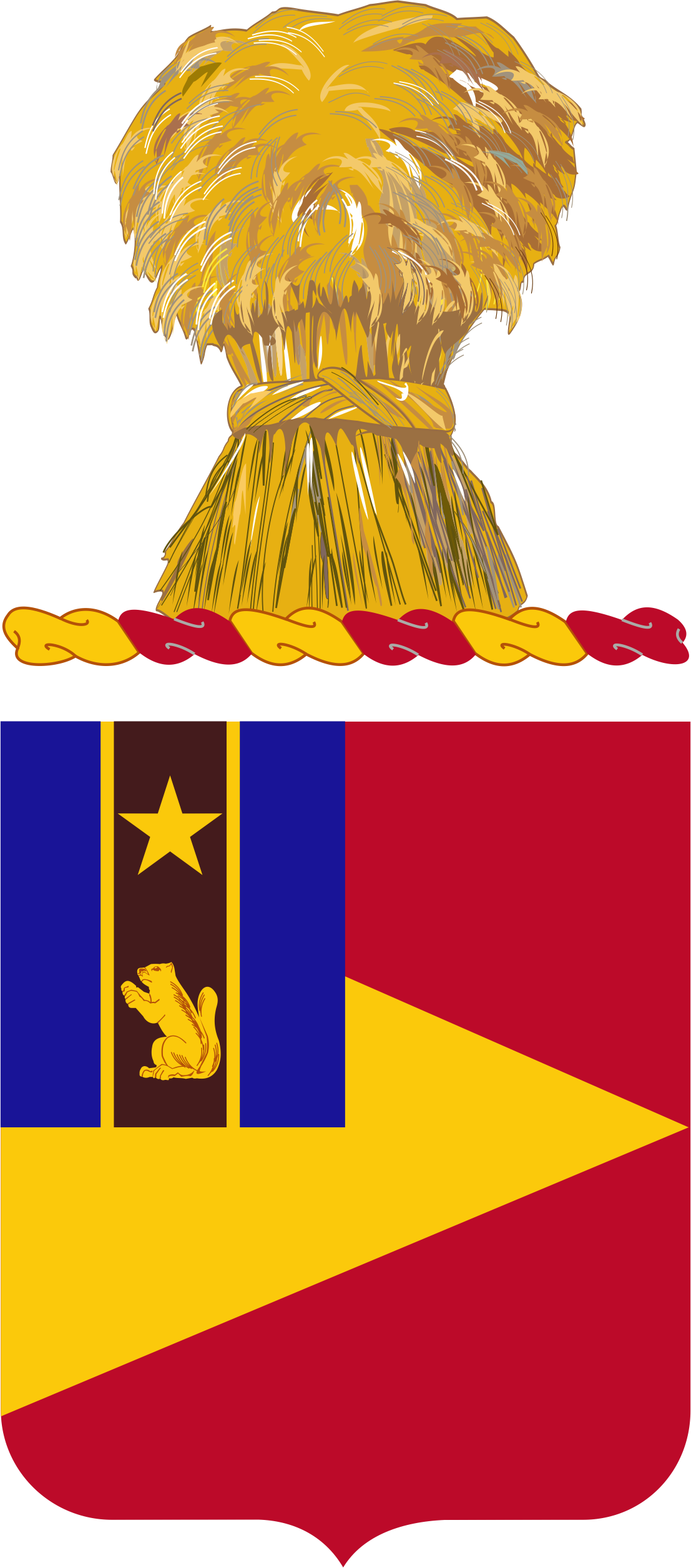 215th Coast Artillery Regiment coat of arms